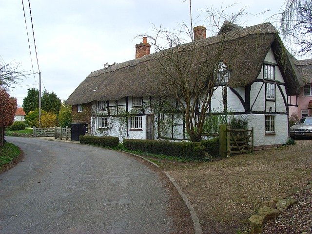 Dragonwyke: a 16th-century cottage in South Street, Blewbury, Oxfordshire (formerly Berkshire)